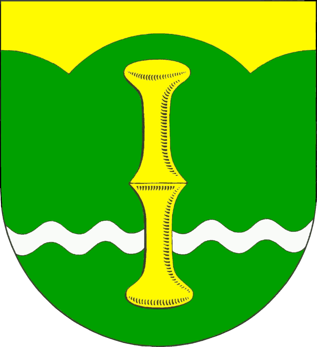 Coat of arms of the municipality Norderstapel in Schleswig-Holstein, Germany.